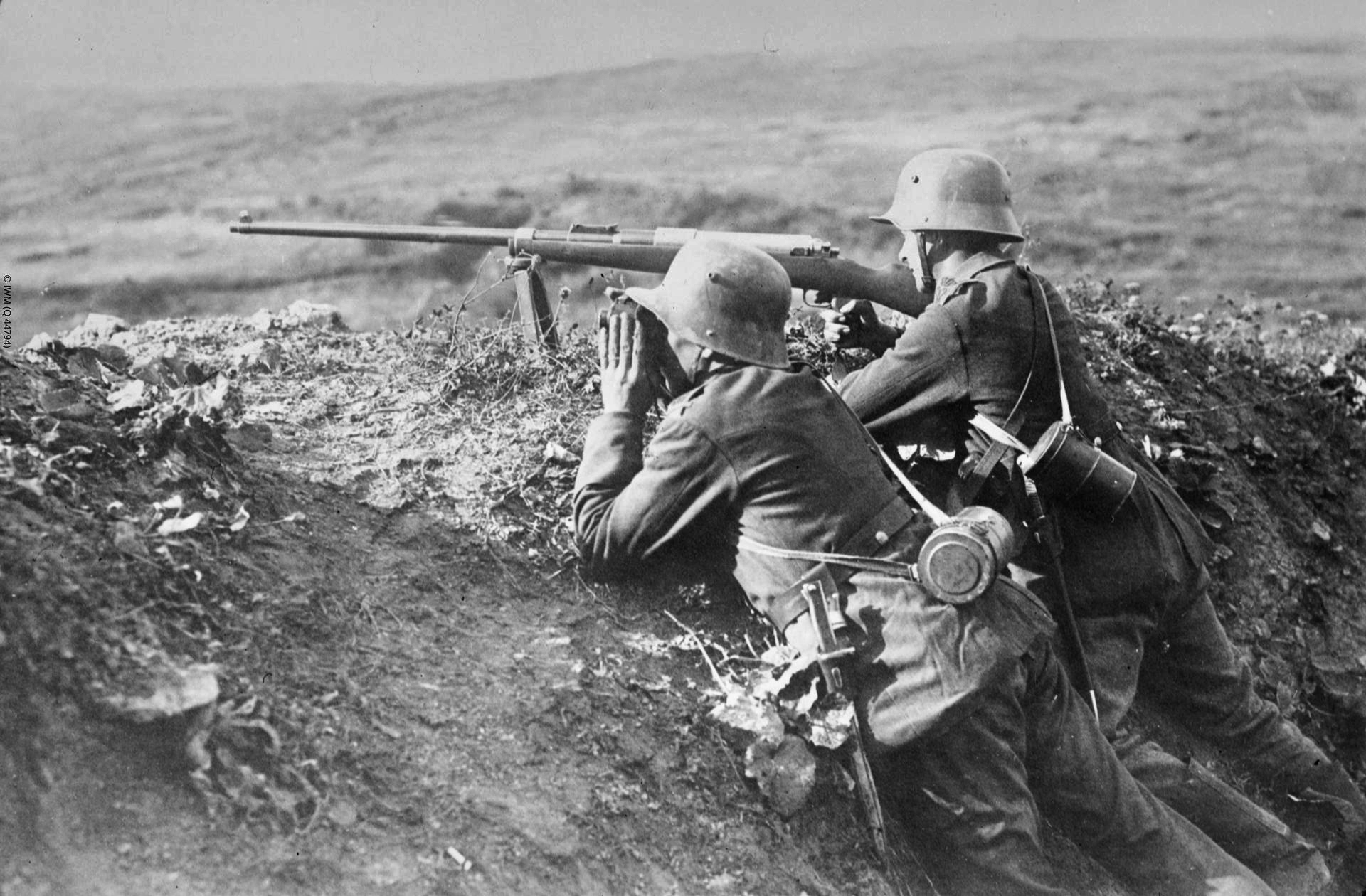 Black and white photograph of German T-Gewehr anti-tank rifle team taken in 1918, originally a German BUFA collection photograph, accessioned as Q 44794 in the collections of the Imperial War Museum